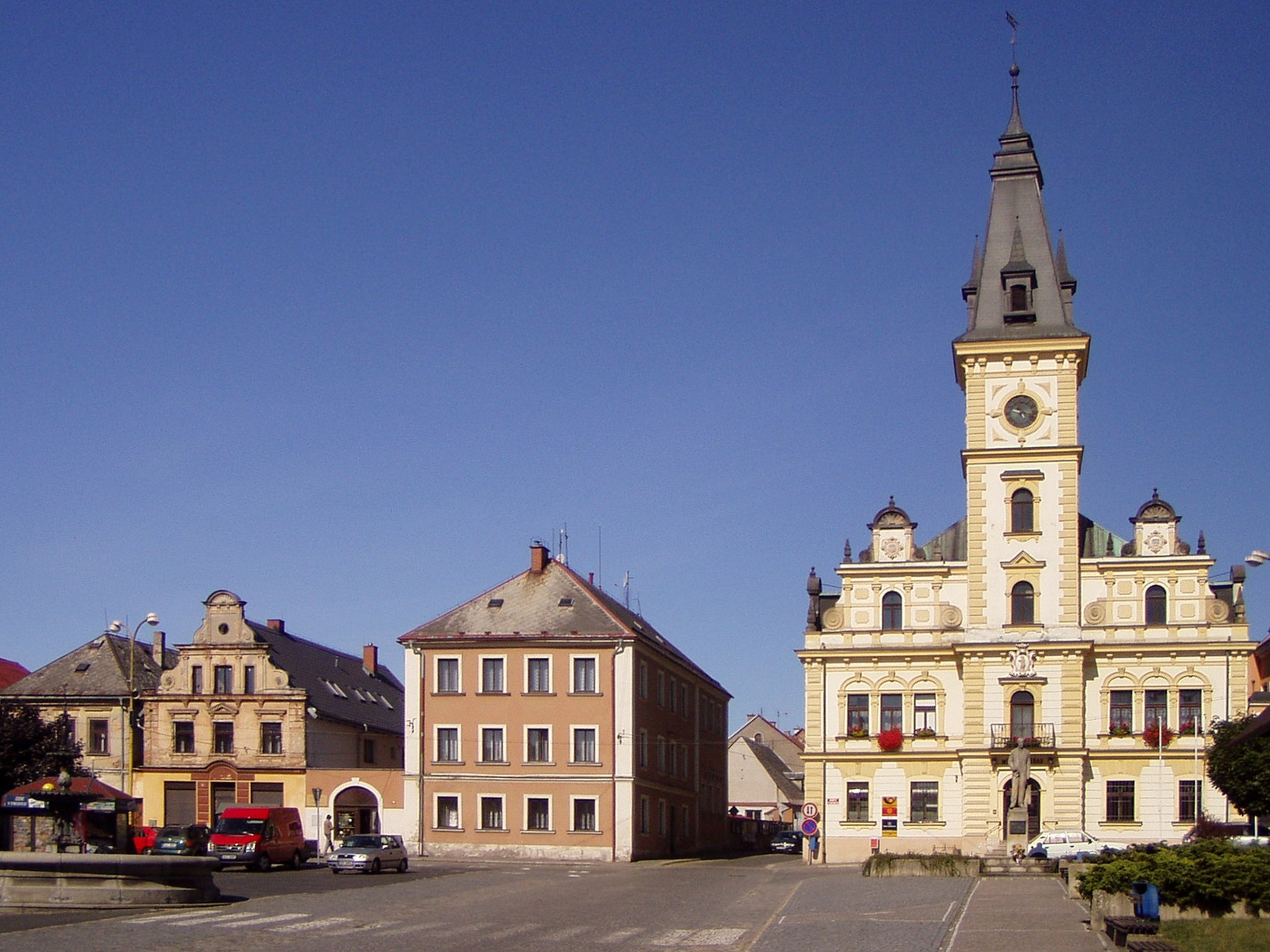 Masaryk Square and Town Hall, Hodkovice nad Mohelkou